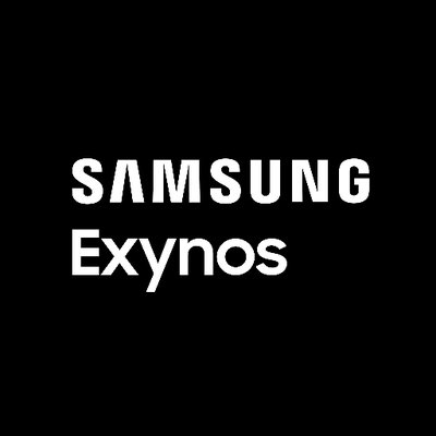 The logo of Samsung Exynos